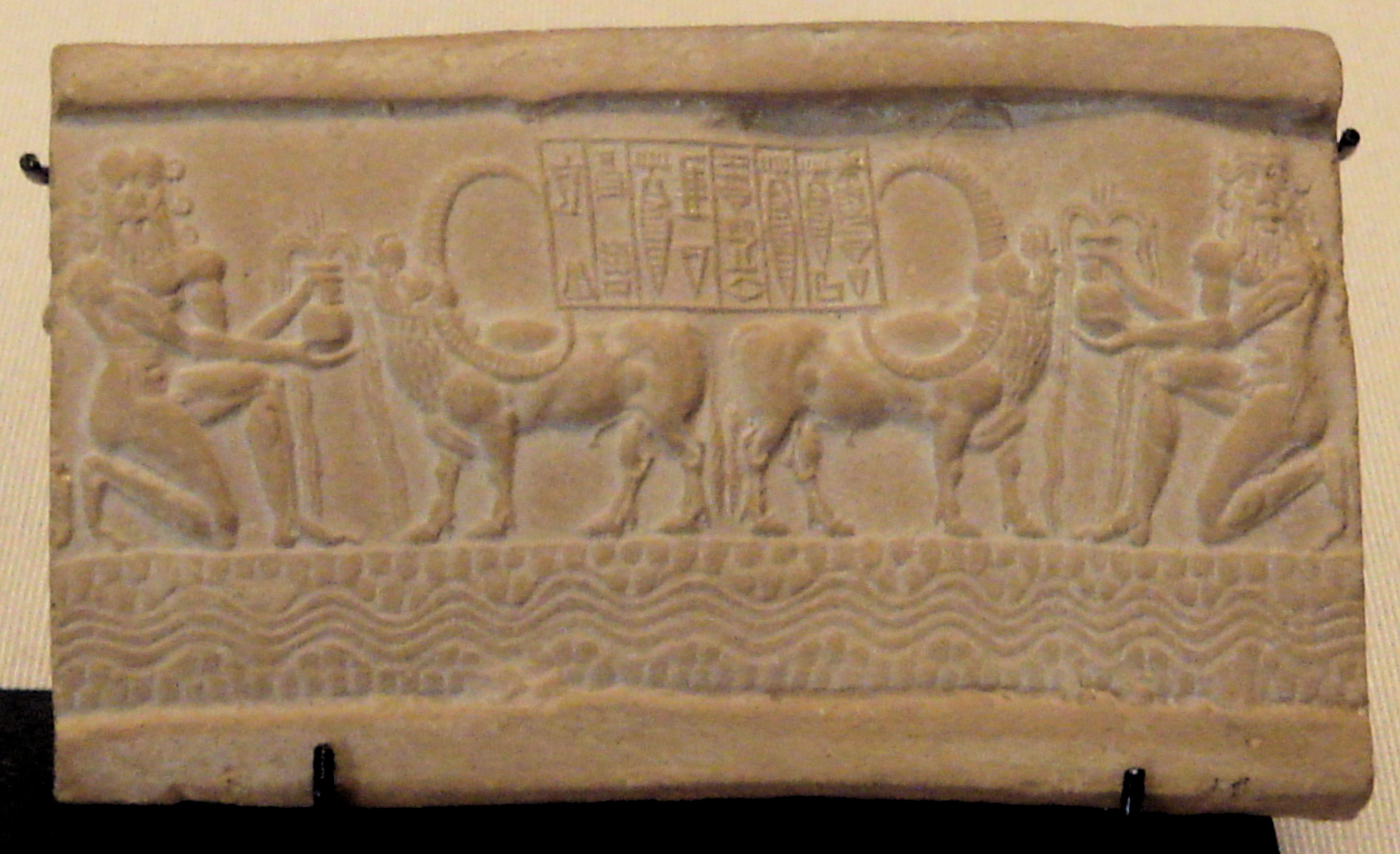 Impression of a cylinder seal of The Divine Sharkalisharri Prince of Akkad Ibni-Sharrum the Scribe his servant Heroes, acolytes of Ea, watering buffalos (Louvre Museum)